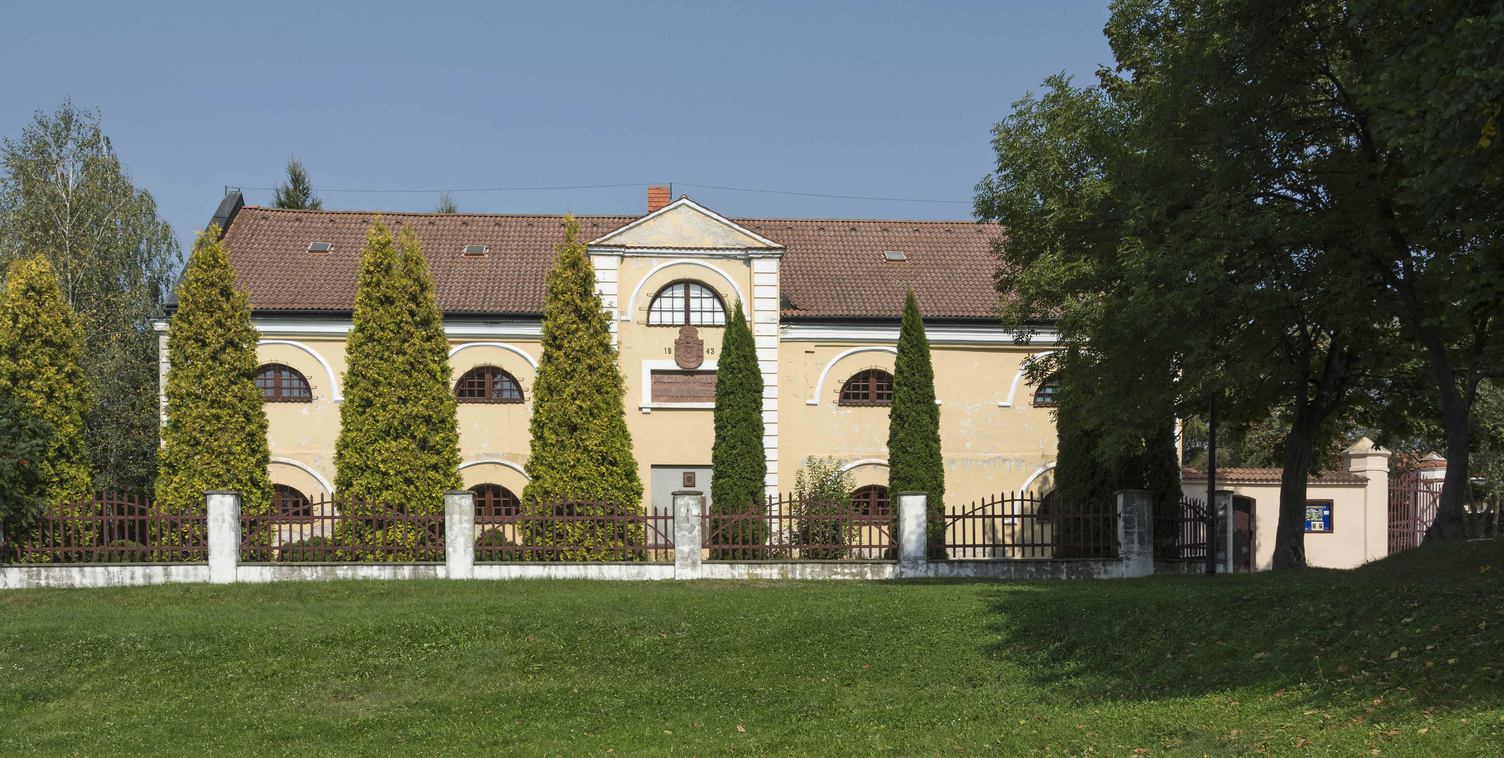 The historic granary in Tarnobrzeg